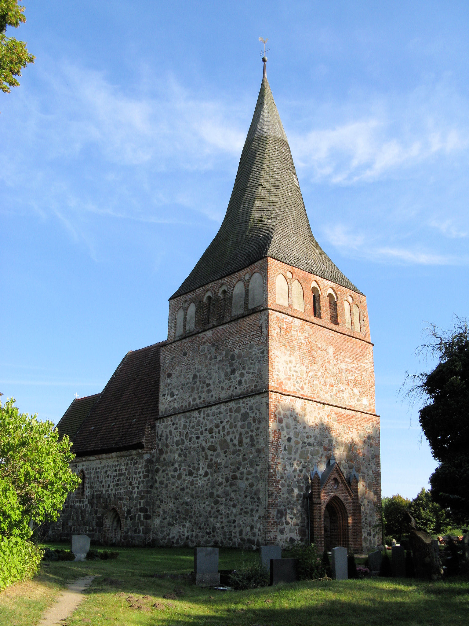 Church in Kittendorf, disctrict Demmin, Mecklenburg-Vorpommern, Germany